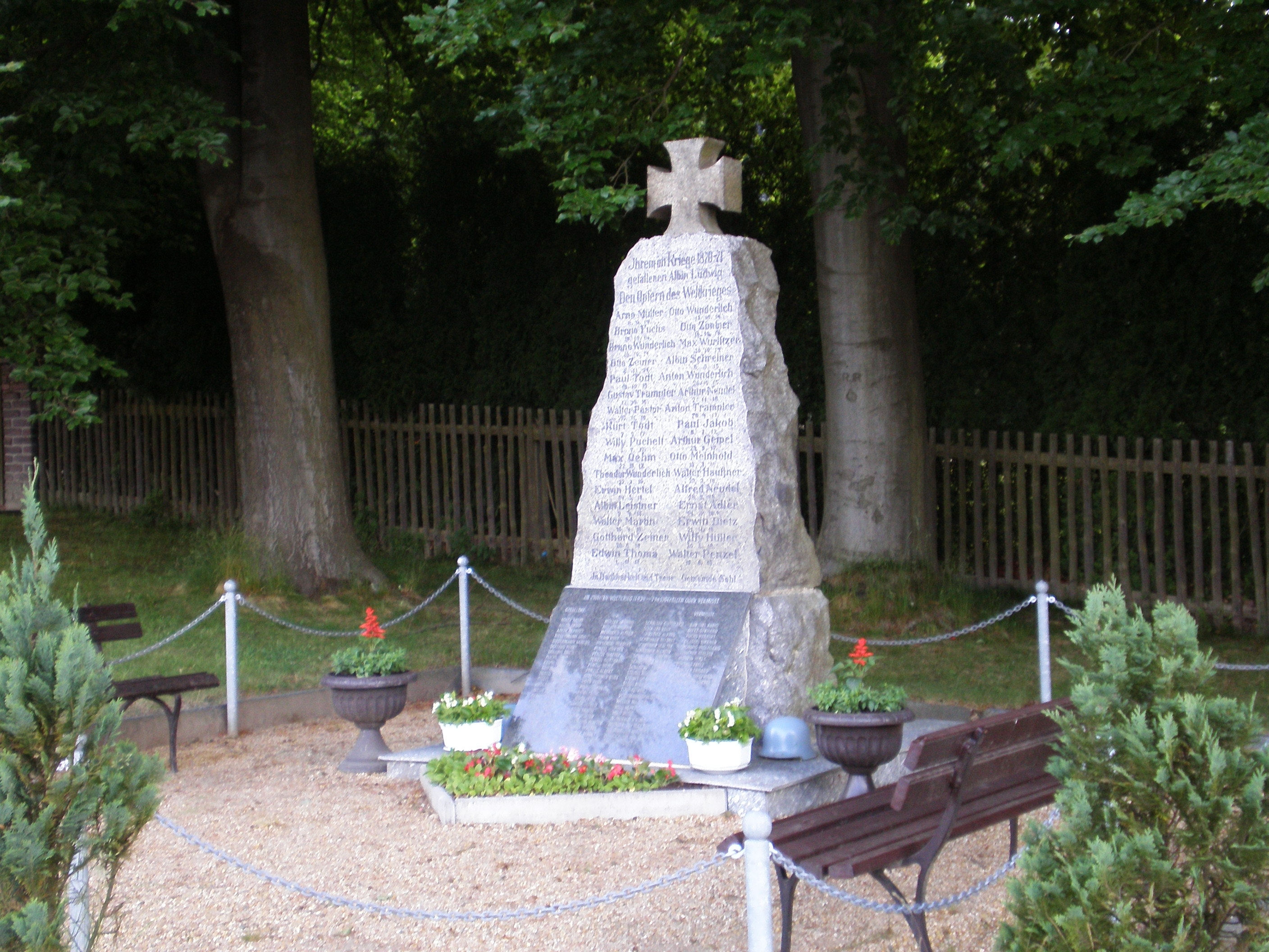 Sohl (Bad Elster), Saxony, Germany, War 1870-1871 & WW1 & WW2 Memorial